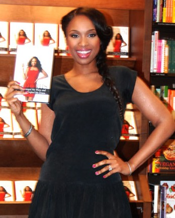 Jennifer Hudson signs copies of "Jennifer Hudson: I Got This: How I Changed My Ways and Lost What Weighed Me Down" at Barnes & Noble Books in Skokie (Chicago) on January 17, 2012. Photo by Adam Bielawski